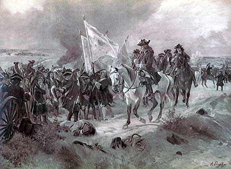 Battle of Ramillies in the Spanish Succession War 1706, Painting by Henri Dupray (*1841,†1909)